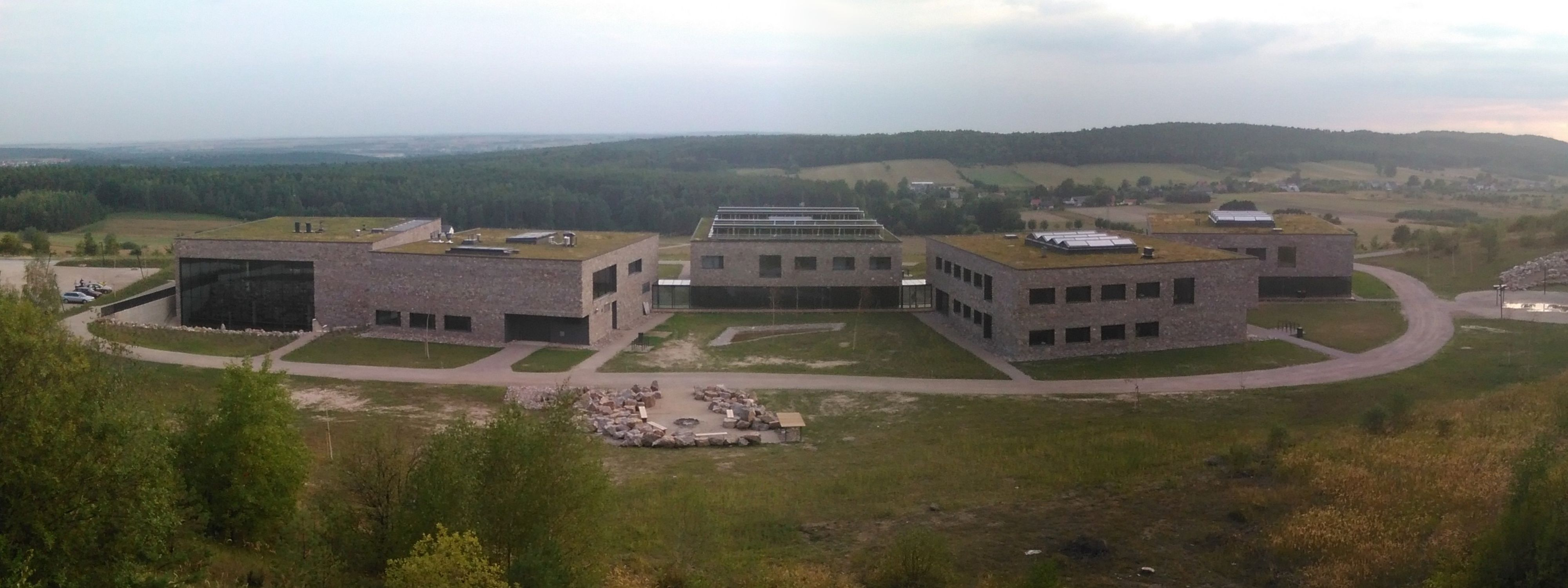 European Center for the Geological Education, Chęciny